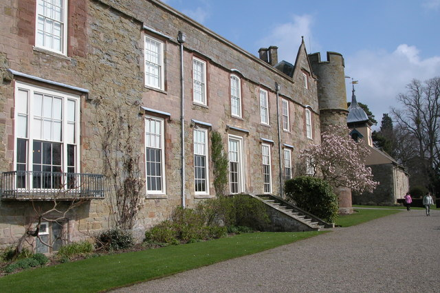 Croft Castle. Croft Castle is in the care of the National Trust along side the castle is St Michael's church. 306025